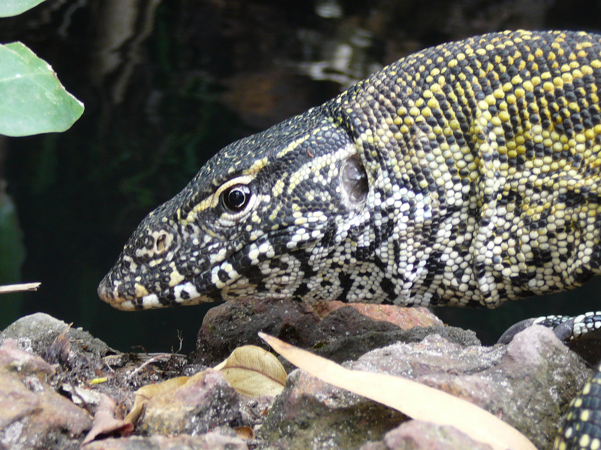 Nile monitor